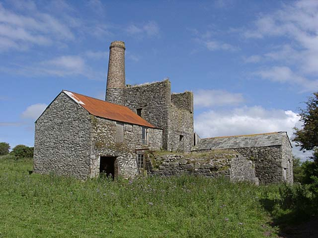 Beacon Mine. Remains of the rotative beam winding enginehouse and associated buildings at Beacon Mine, Belowda.